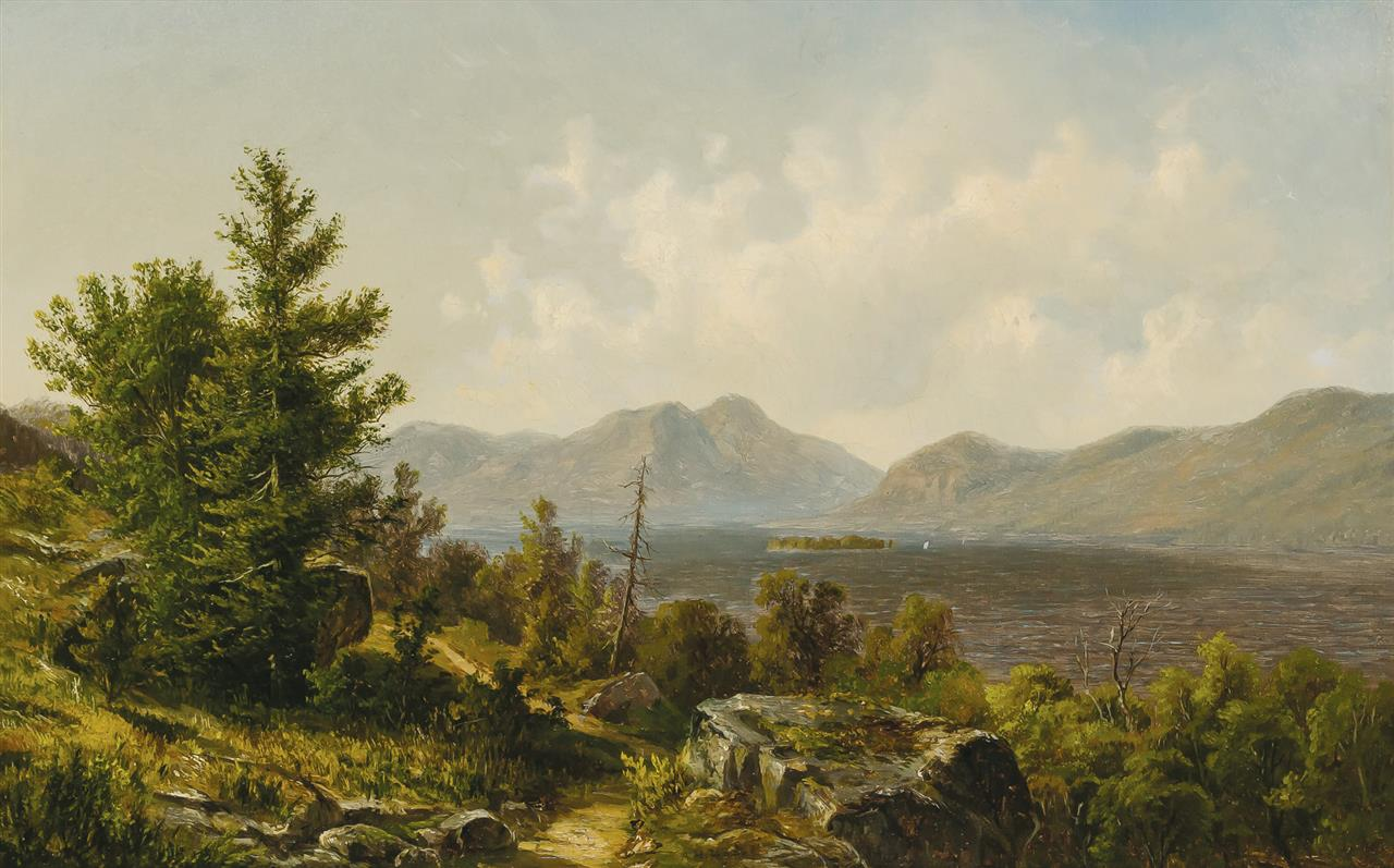 On the Hudson by Alexander Helwig Wyant, oil on canvas mounted on wood, circa 1860-1863, 14 x 22 inches